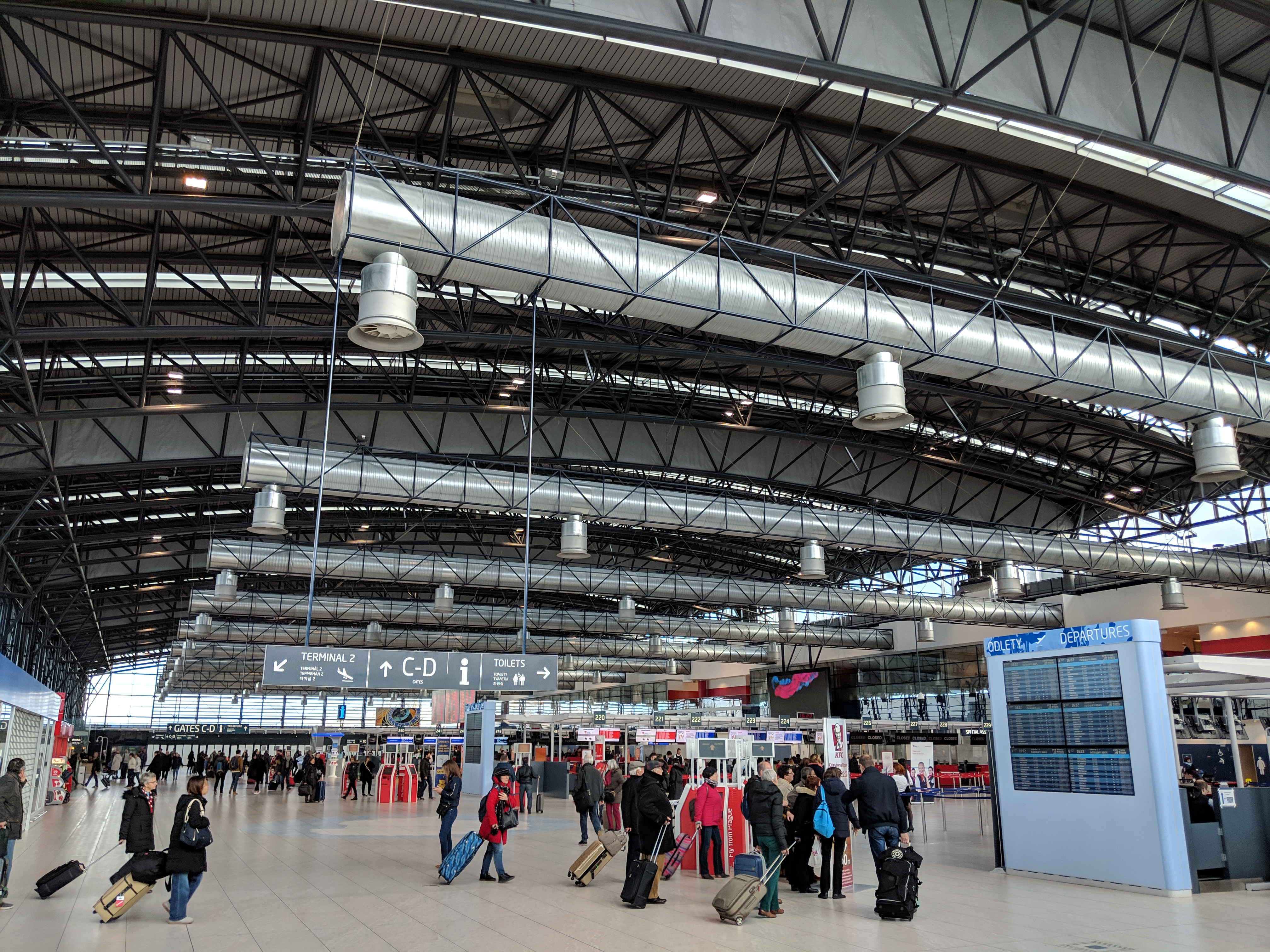 Prague Airport Terminal 2 Departures Hall in March 2019